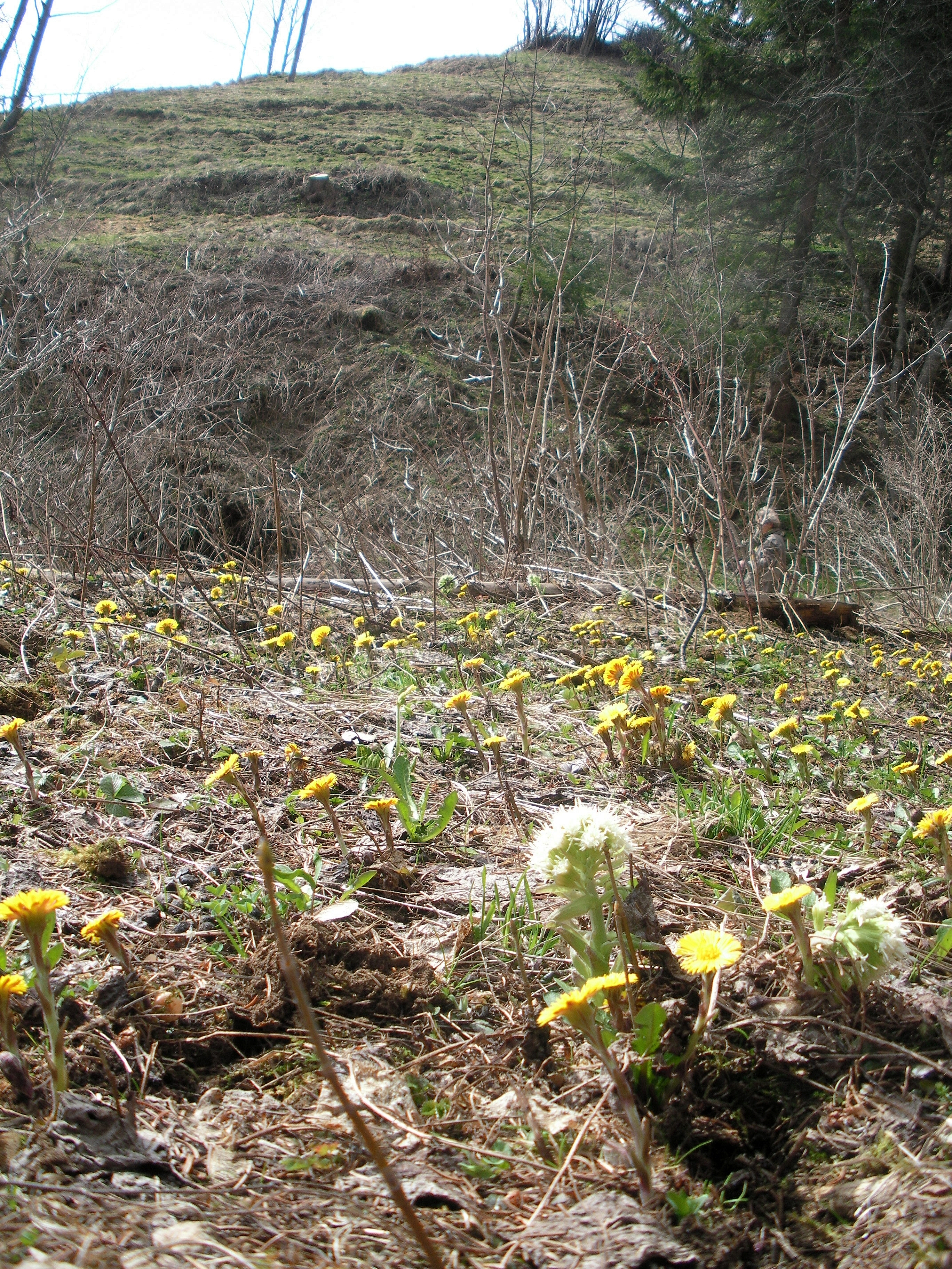 Tussilago farfara Bretstein Ravine